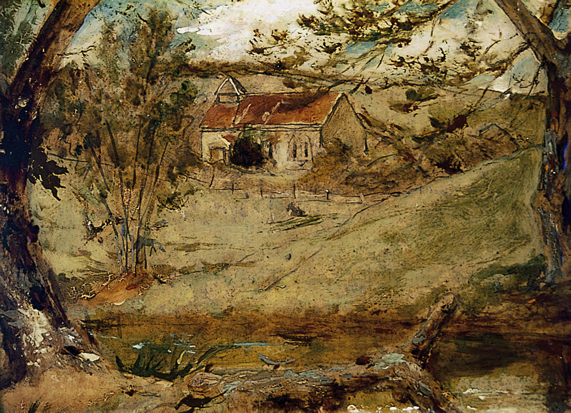 View between two trees of red roofed church: a sketch.